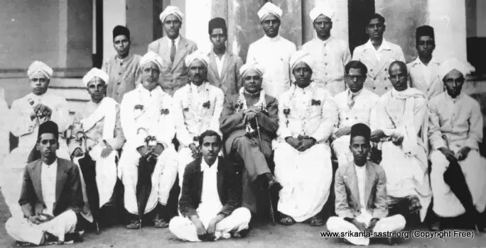 Group photograph showing B. M. Srikantaiah, S. Srikanta Sastri, G. Venkatasubbaiah and other second year B. A. Honours Students